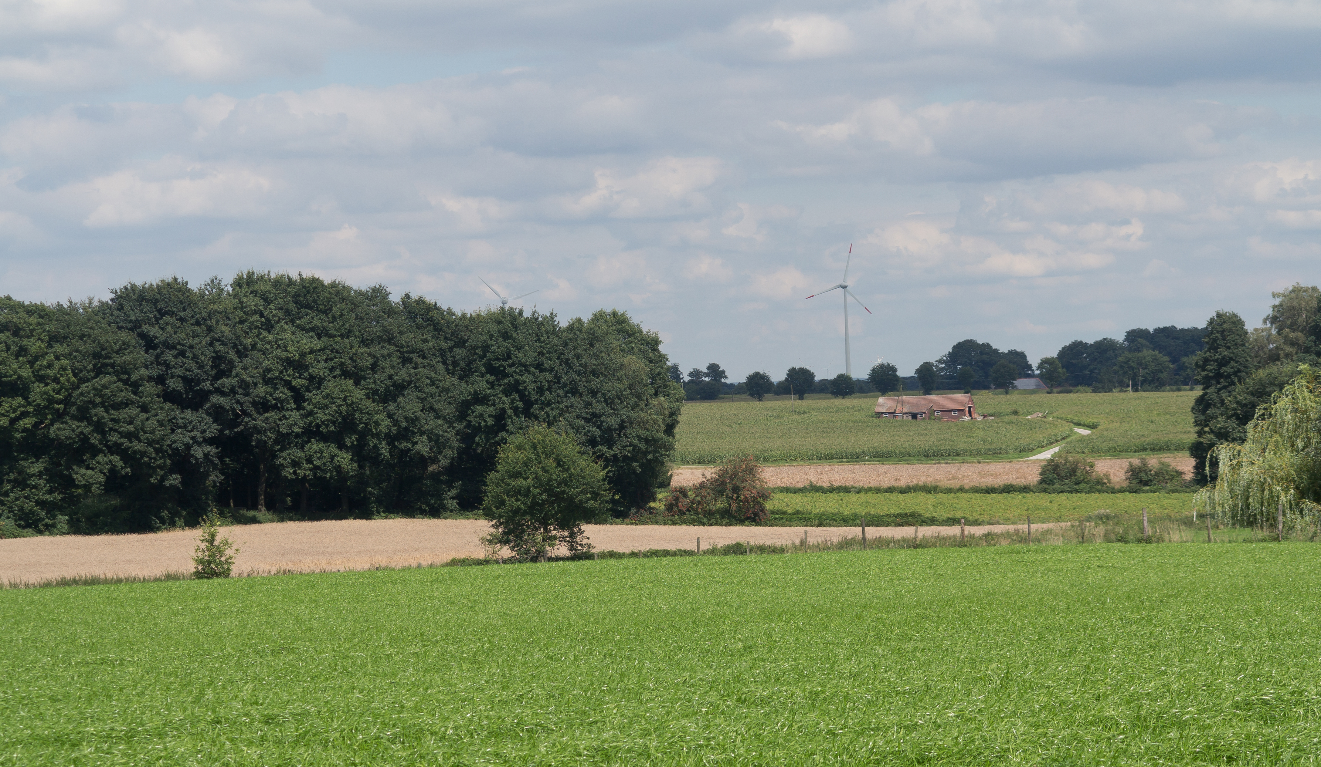 near Bahnhof Reken, panorama